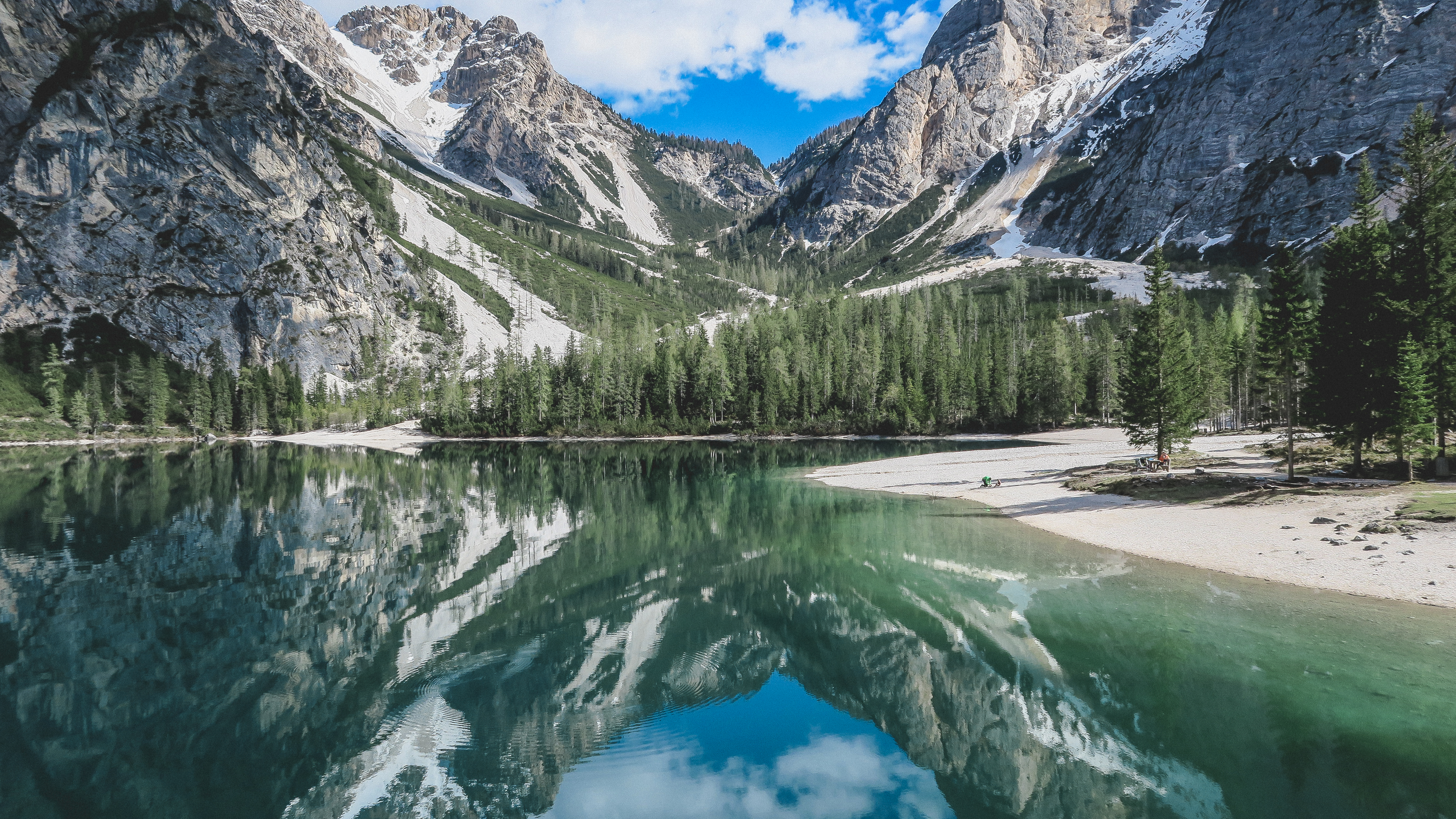 Pragser Wildsee, Italy